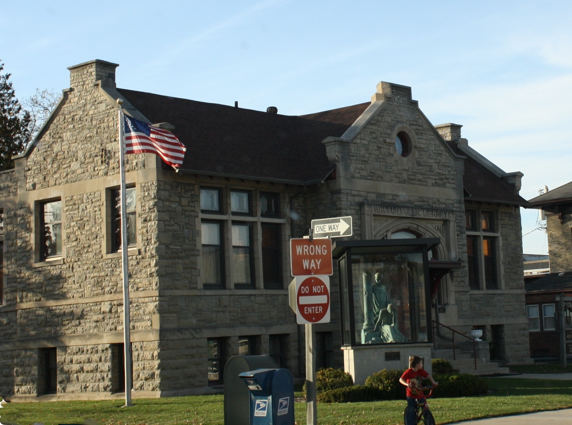 The Waupun Public Libaray in Waupun, Wisconsin, listed on the National Register of Historic Places.